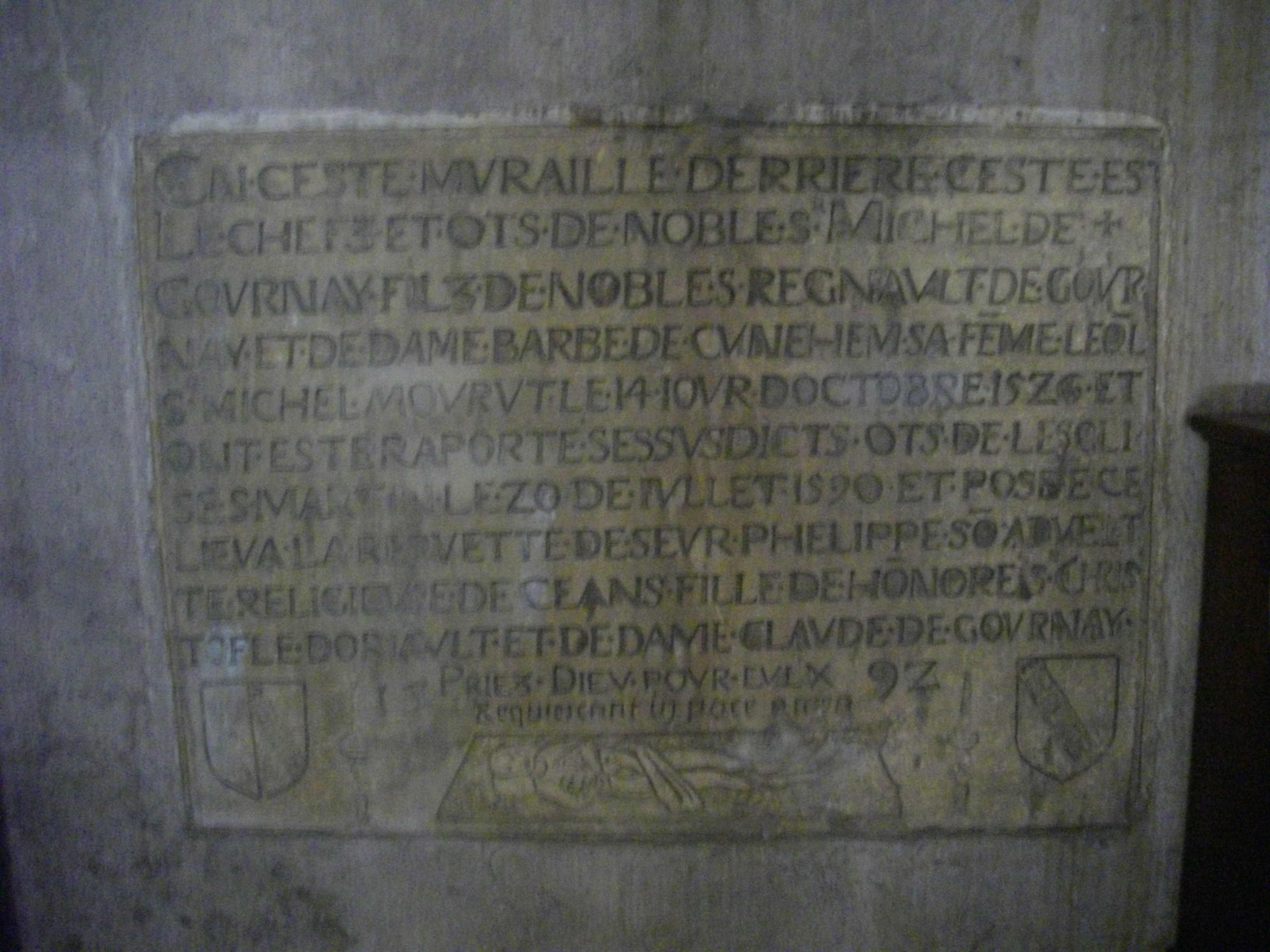 Saint Martin church of Metz (Moselle, France). Gravestone .